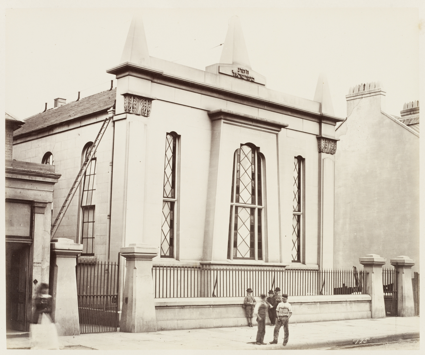 102. Jewish Synagogue in Tasmania SH 707